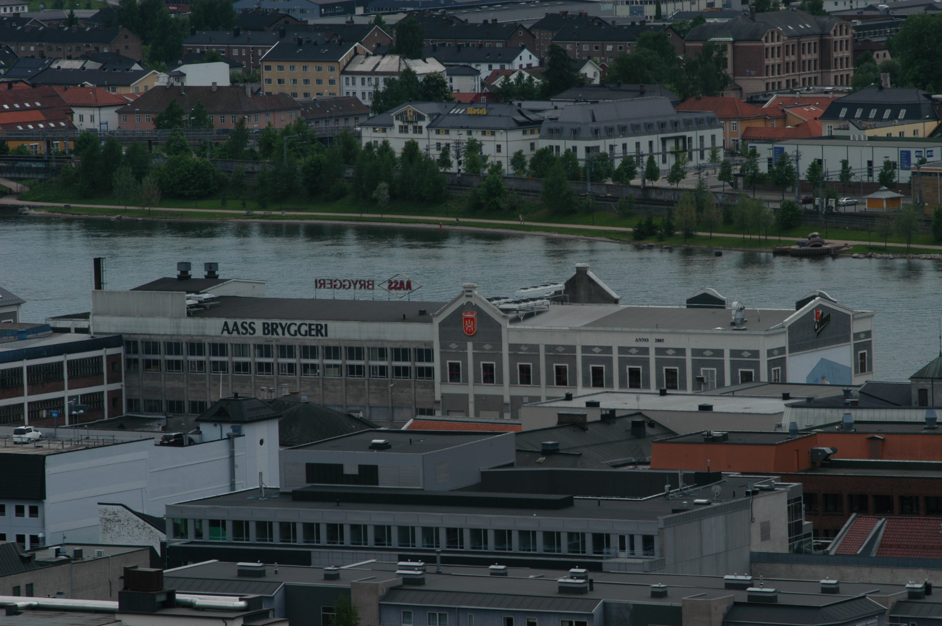 Aass brewery in Drammen, seen from the north side.